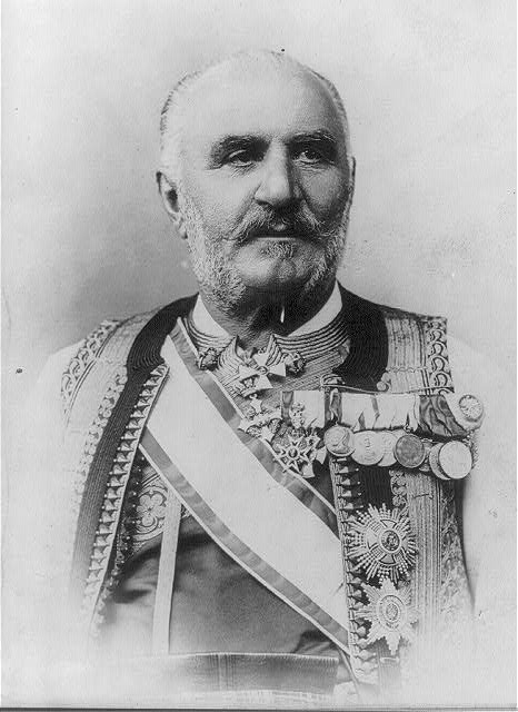 Title: Nicholas I, King of Montenegro, 1841-1921, head and shoulders portrait, facing left Abstract/medium: 1 photographic print.